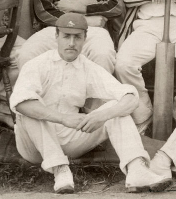 The Kent County Cricket team. Herbert Hearne